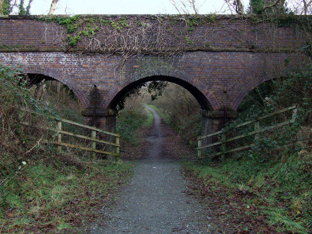 Bridge over old railway line. This is an bridge over the old Bethesda to Bangor railway line, which is now a cycle track from Tregarth to Port Penrhyn in Bangor